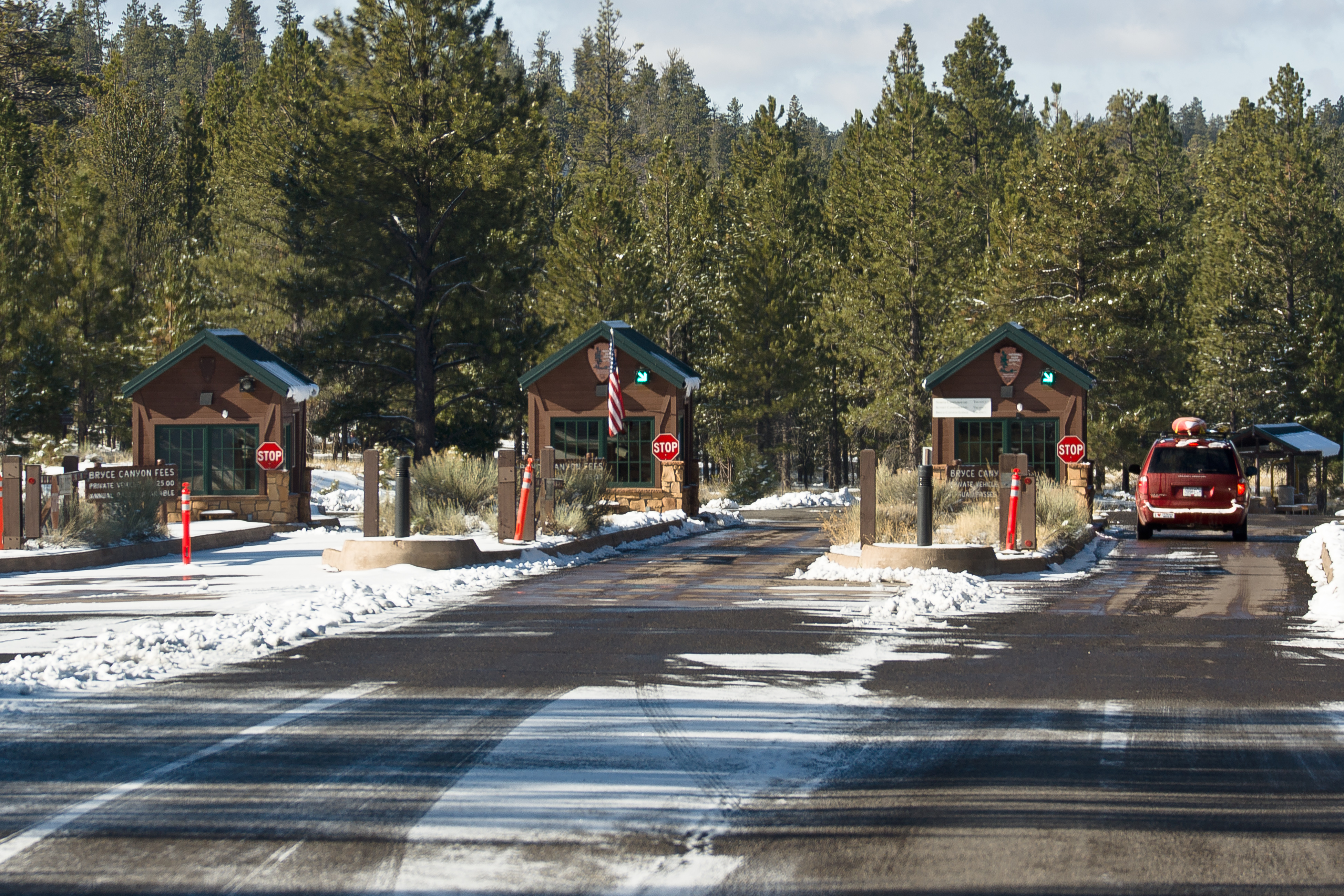 Bryce Canyon National Park entrance near South terminus of SR-63 in Utah, USA.